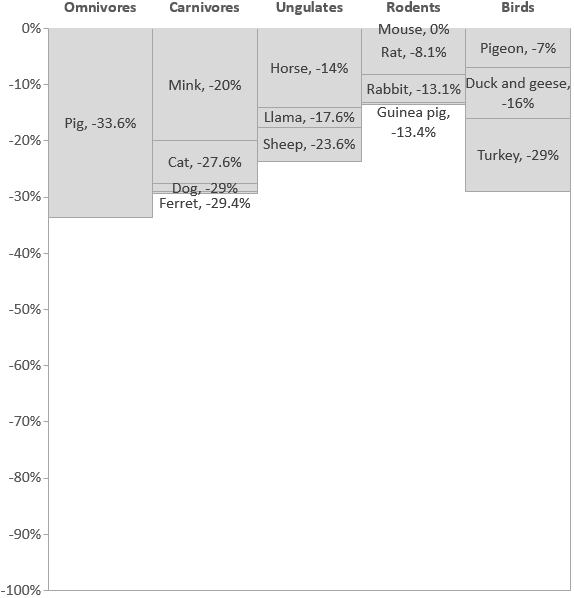 Brain size reduction domesticates, based on: Melinda Zeder (2012): 'The domestication of animals' in Journal of Anthropological Research, Volume 68, Number 2, p. 161–190